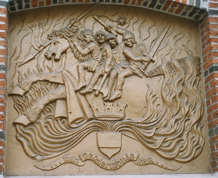 Relief Ros Beiaard, the mythical horse, on the wall of a house in Dendermonde.